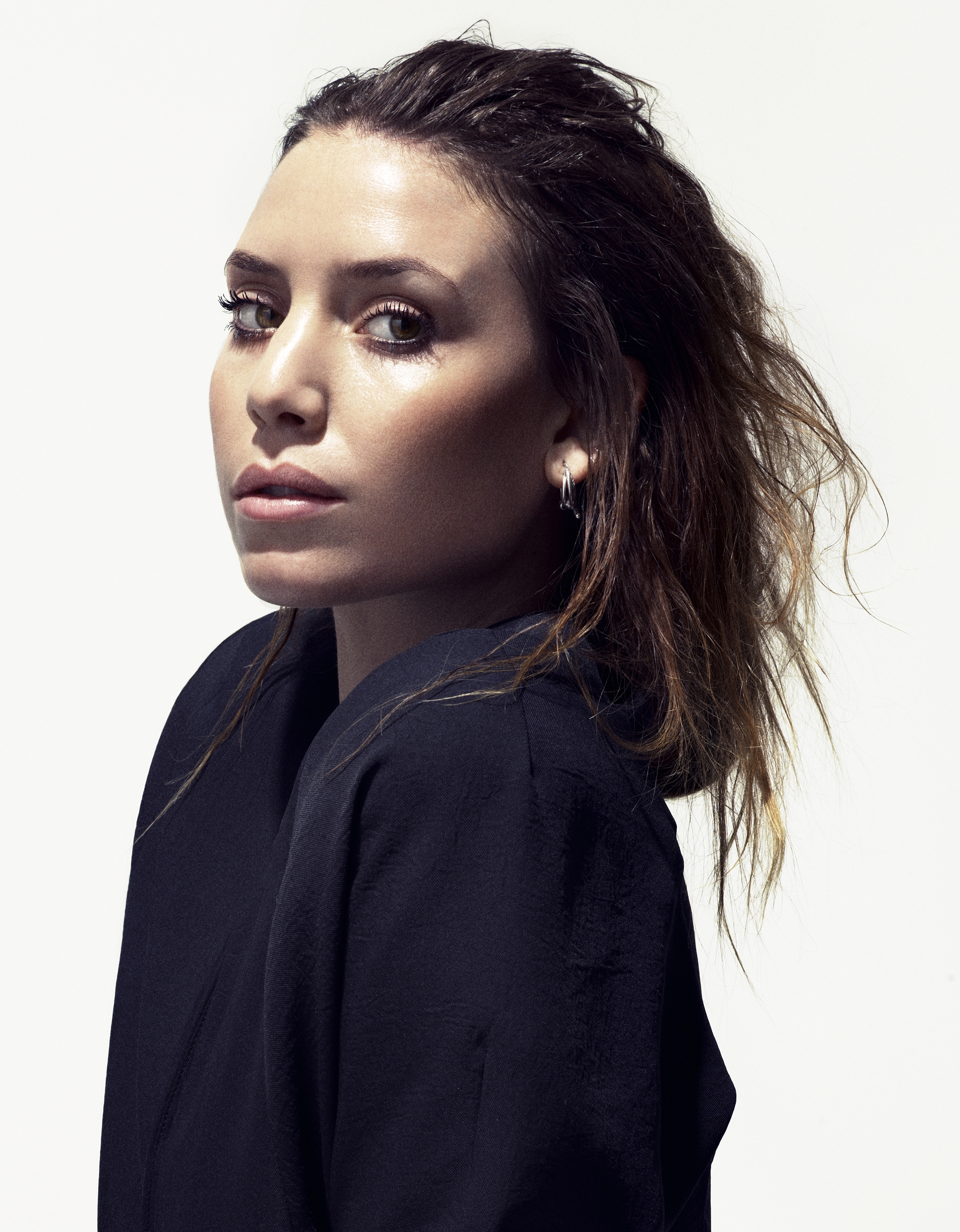 Crop of File:Lykke Li 1.jpg, better sized for a main infobox